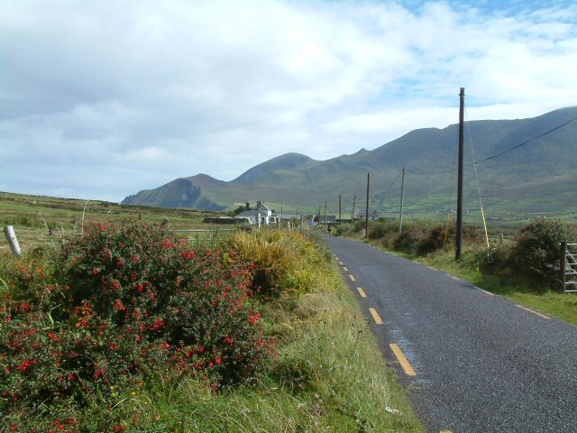 Ballyroe. Más a Tiompáin looms over Baile Reo on the road between Cuas an Bhodaigh (Brandon Creek) and An Fheothanach.